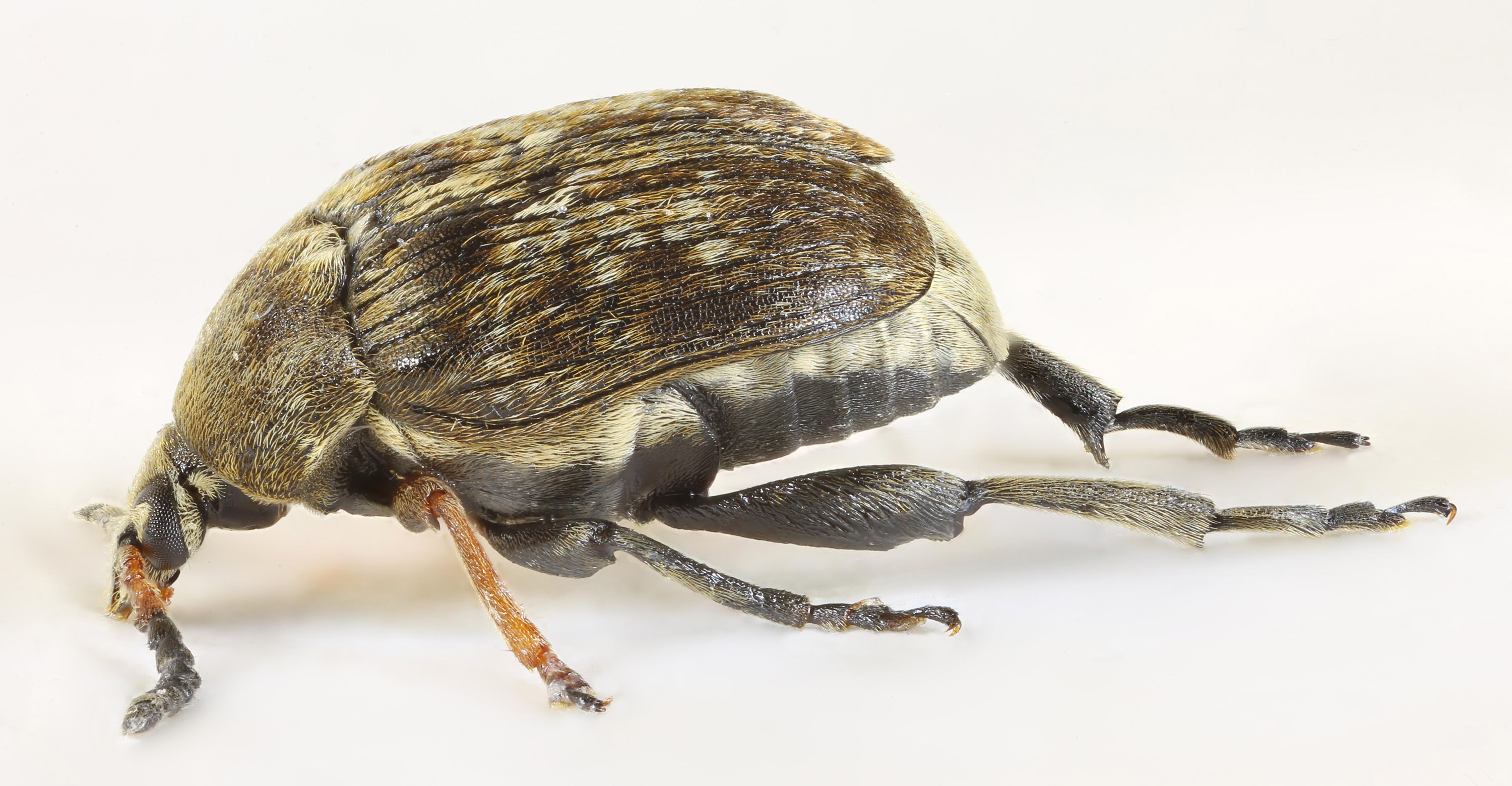 Bruchus rufimanus, Minera, North Wales, May 2017